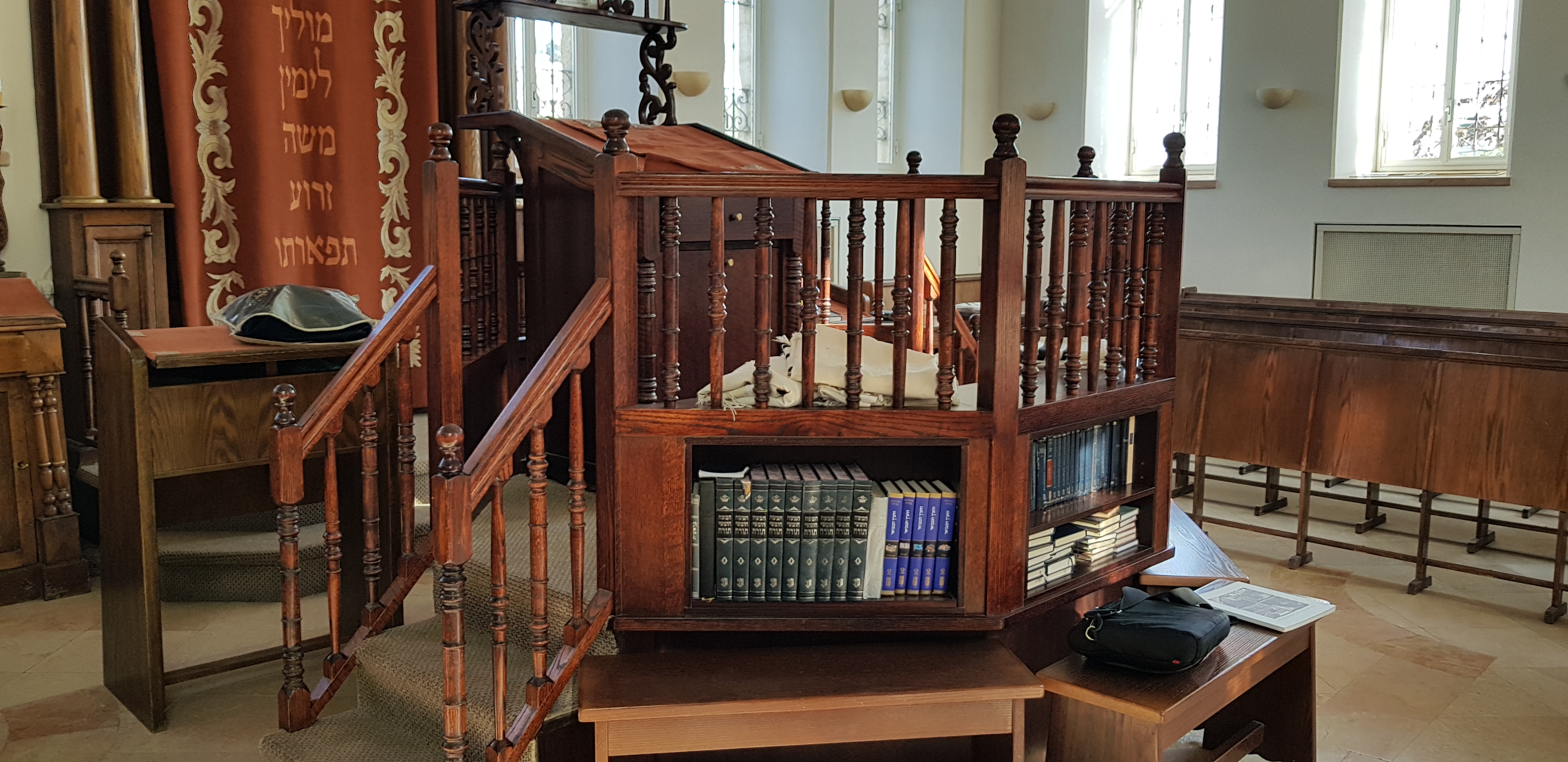 במת העץ העתיקה במרכז בית הכנסת